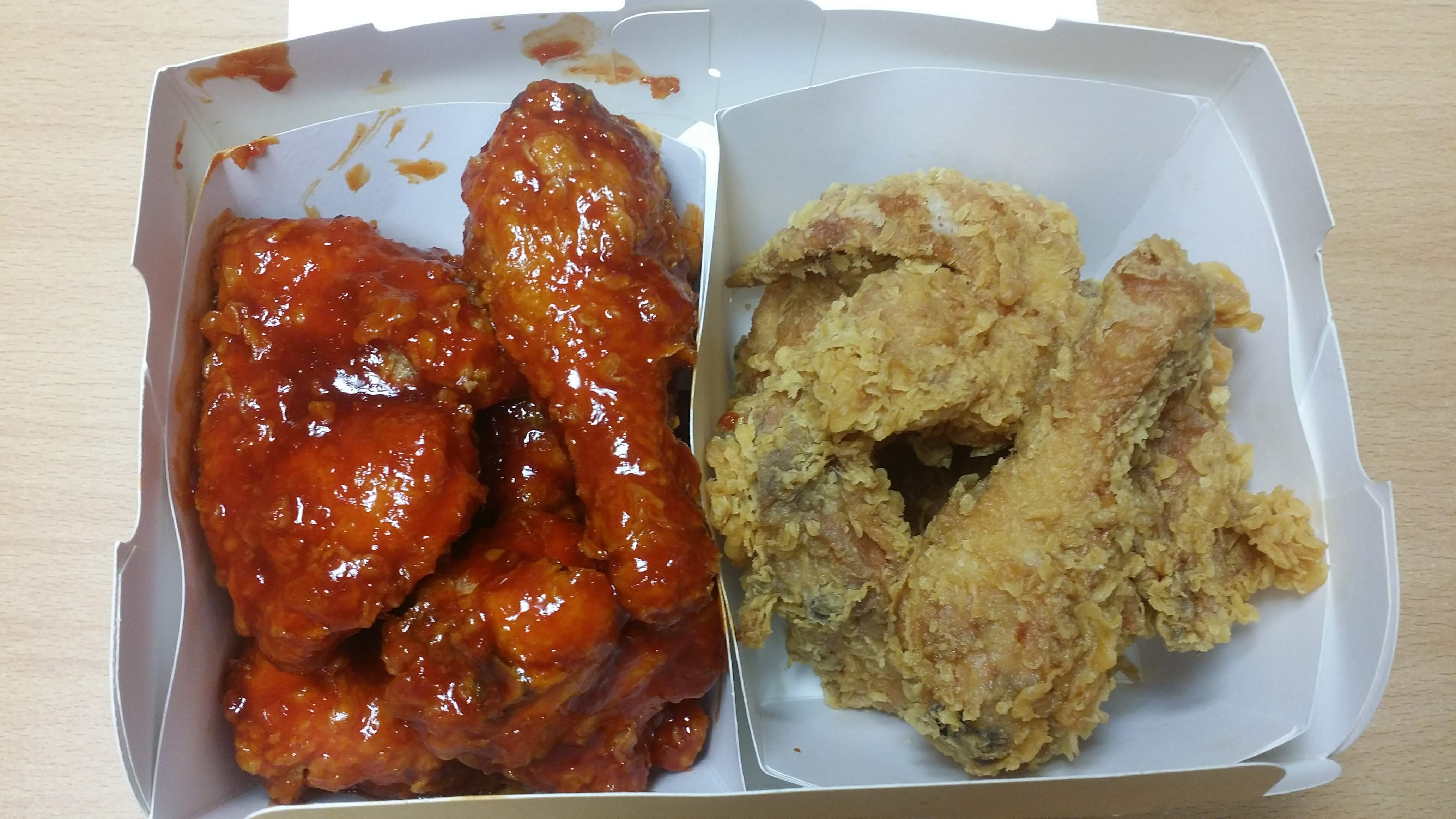 Yangnyeom-chikin from bhc Chicken franchise